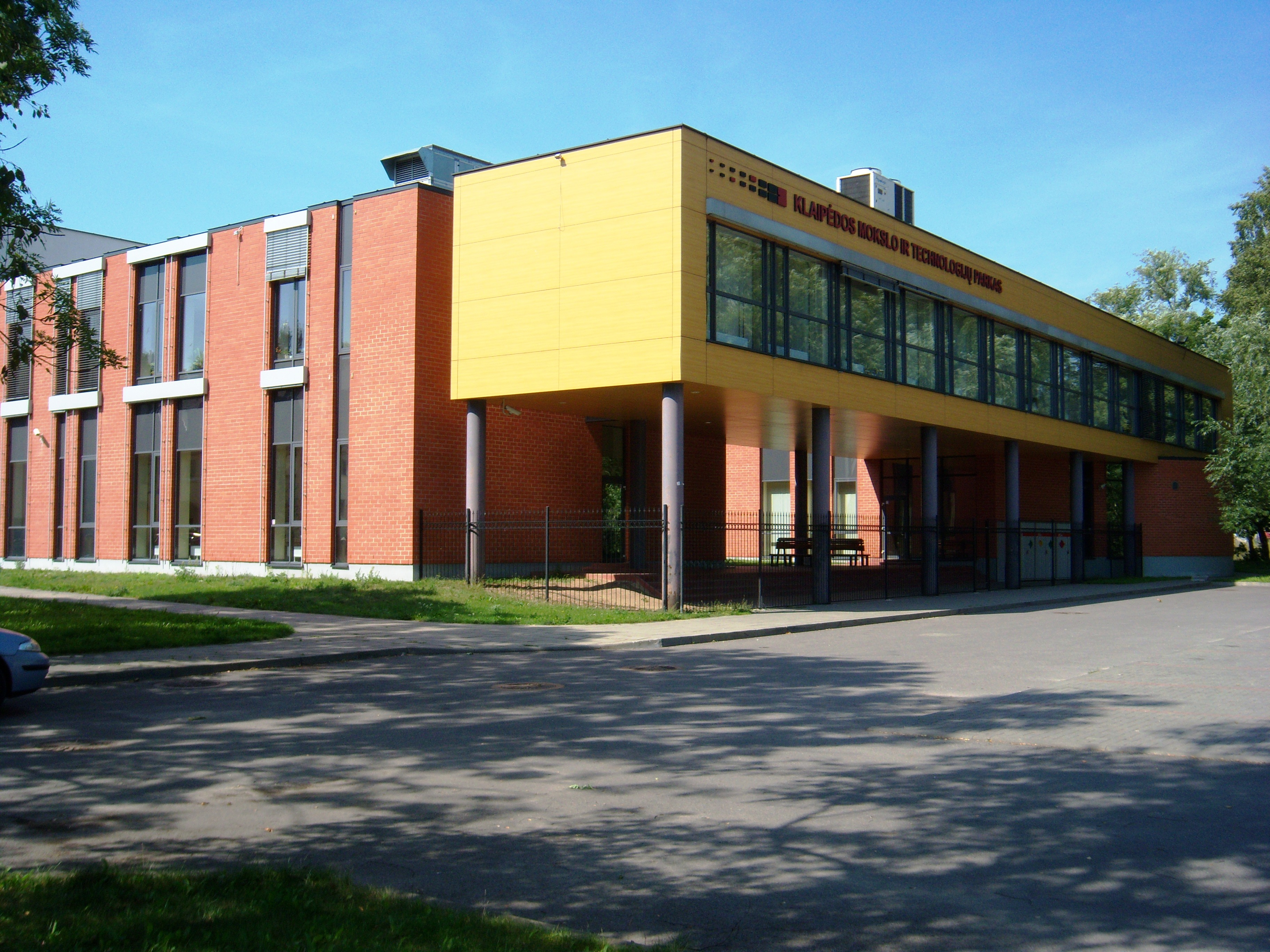 Science and Technology Park, Klaipėda, Lithuania